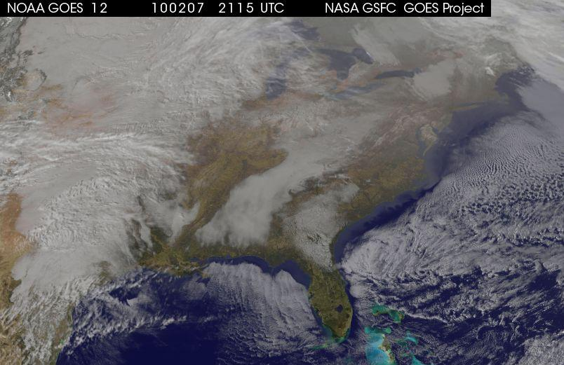 Storm #2